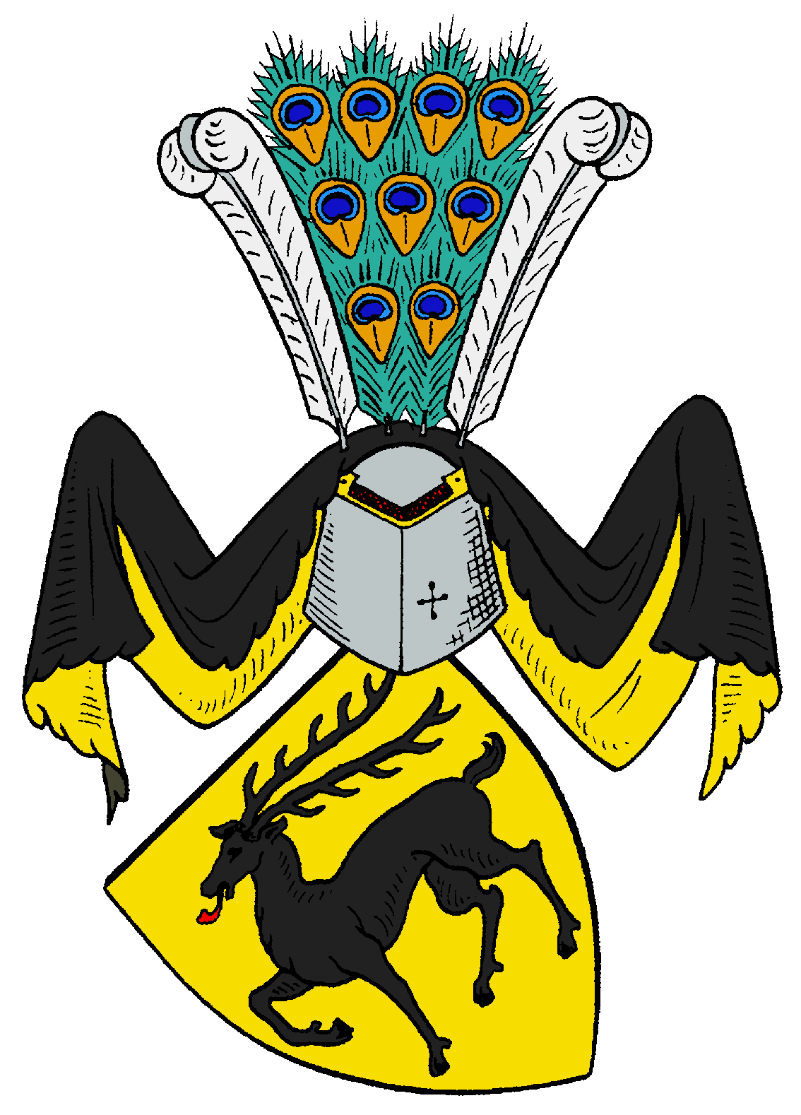 Coat of arms of the counts of Stolberg